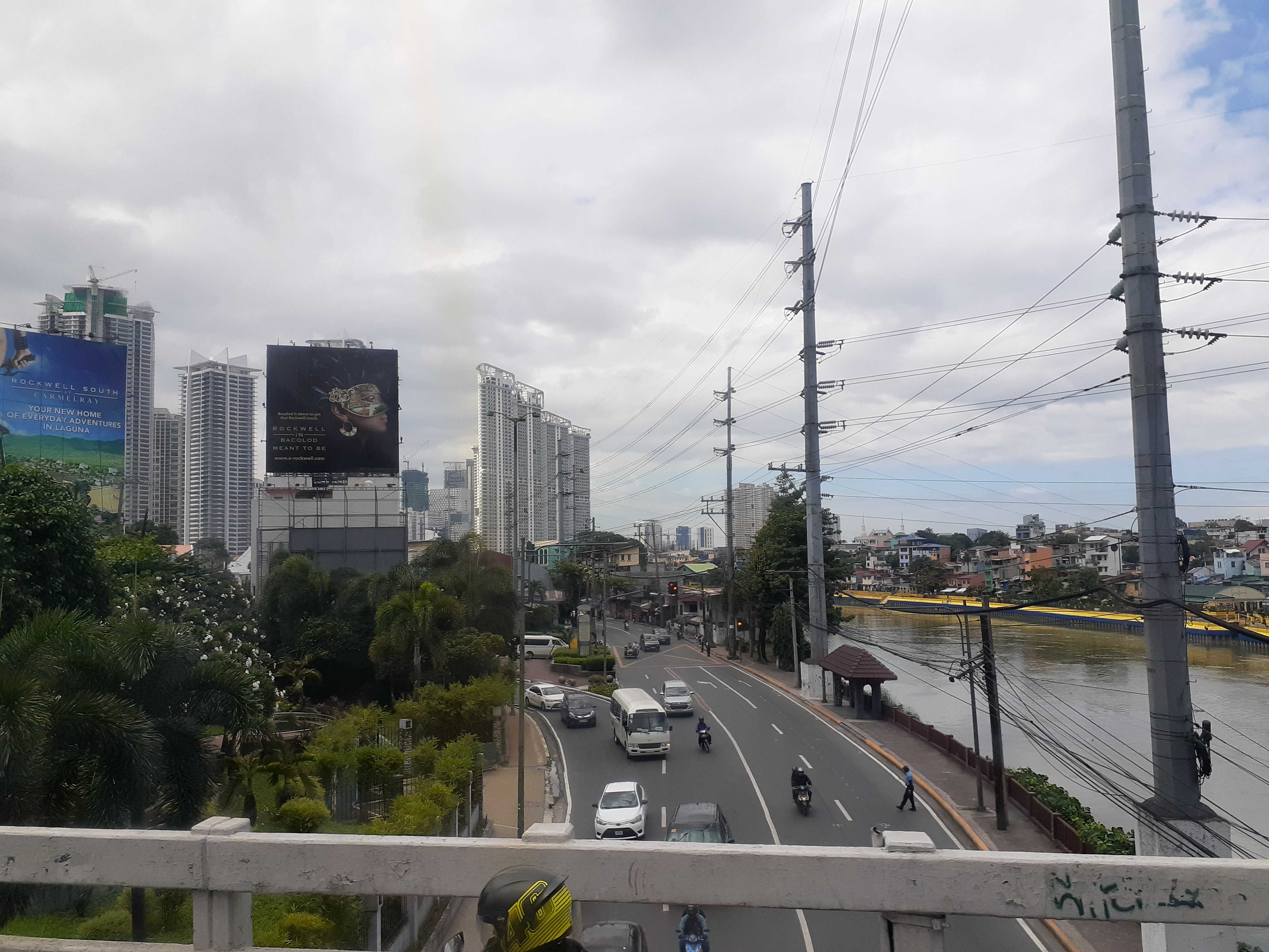 J.P. Rizal Avenue in Makati, the Philippines as seen from southbound EDSA. Shot taken during our field trip to Gardenia Center and Enchanted Kingdom